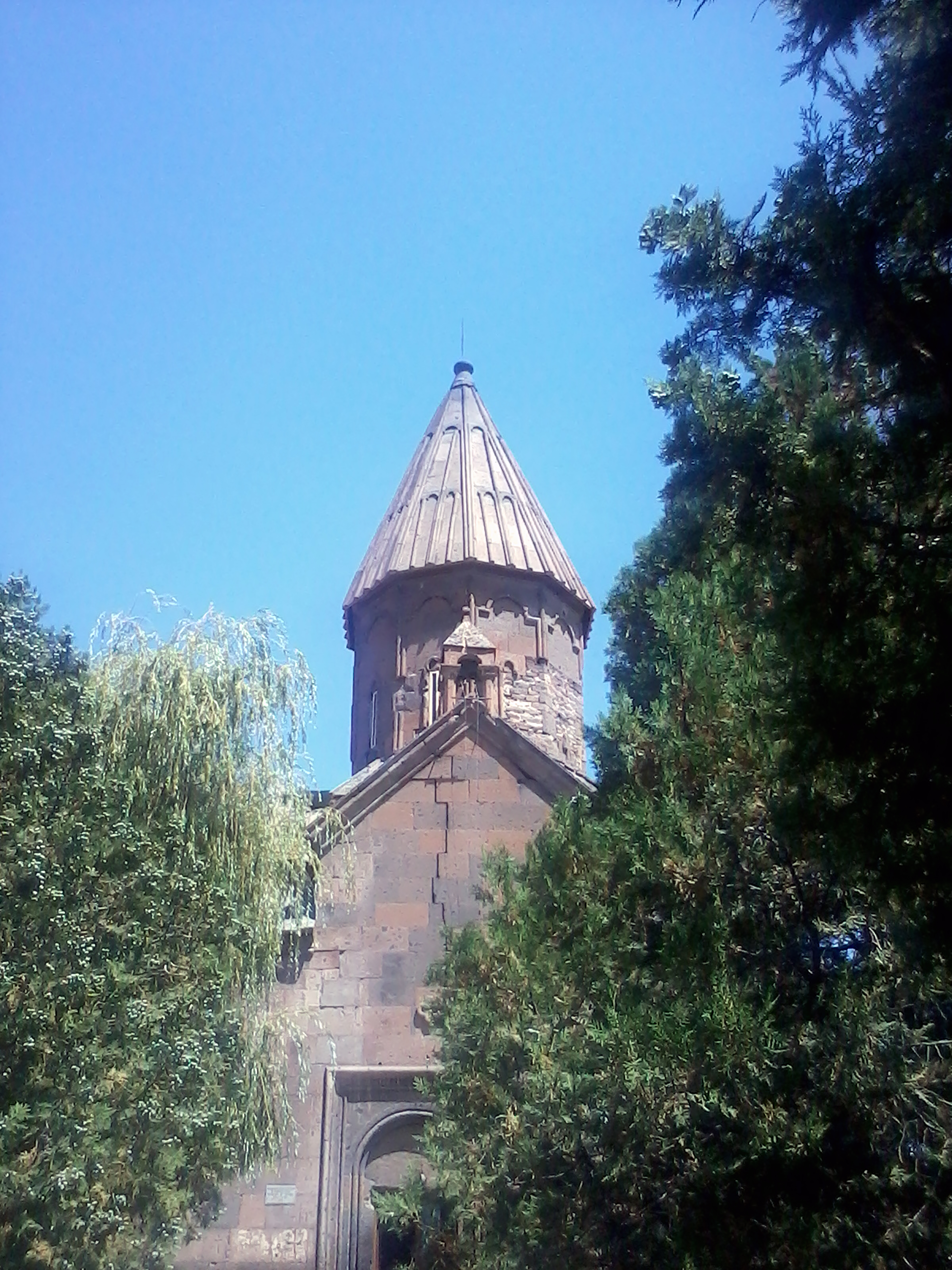 The 13th century church in Ashtarak.Named Surb Marine.